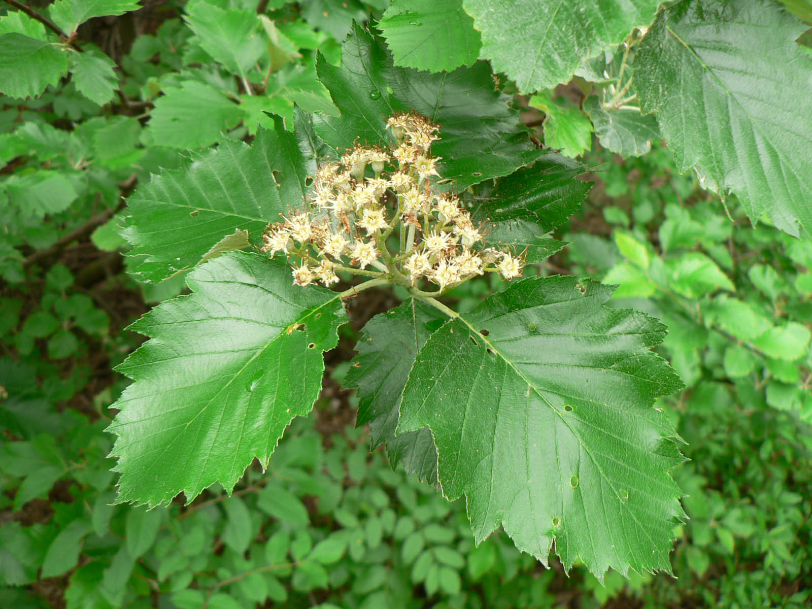 Budai berkenye a Nagy-Szénás tanösvény útvonala mentén